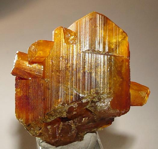 Eosphorite Locality: Mendes Pimentel, Doce valley, Minas Gerais, Southeast Region, Brazil (Locality at ) This is a very unusual cluster of intergrown crystals from a locality that mostly has produced only single loose crystals, from what I have seen for sale. There is minor damage on the back, as well as on some of the tips of the elongated thin blades, but it does not affect the overall appeal of the specimen or its major crystal at all. The luster is very good and it shows the excellent striations to good effect, as well as an unusually rich and lustrous reddish-orange color. This is a very attractive piece whereas most of these old eosphorites are rather brown and dull! 3.2 x 3.2 x 1 cm